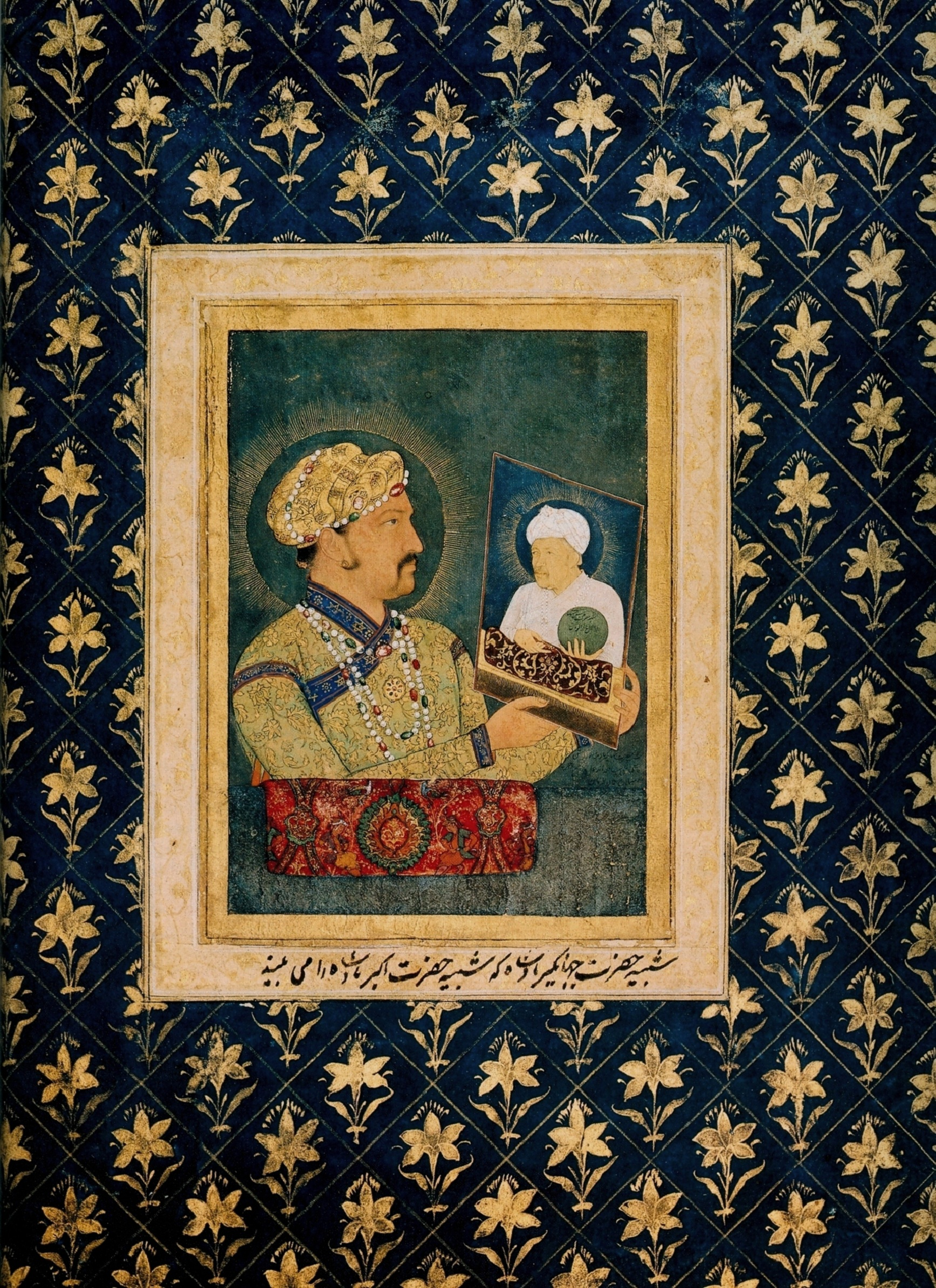 Abu'l Hasan, Jahangir with a Portrait of Akbar. 1614г Musee Guimet, Paris